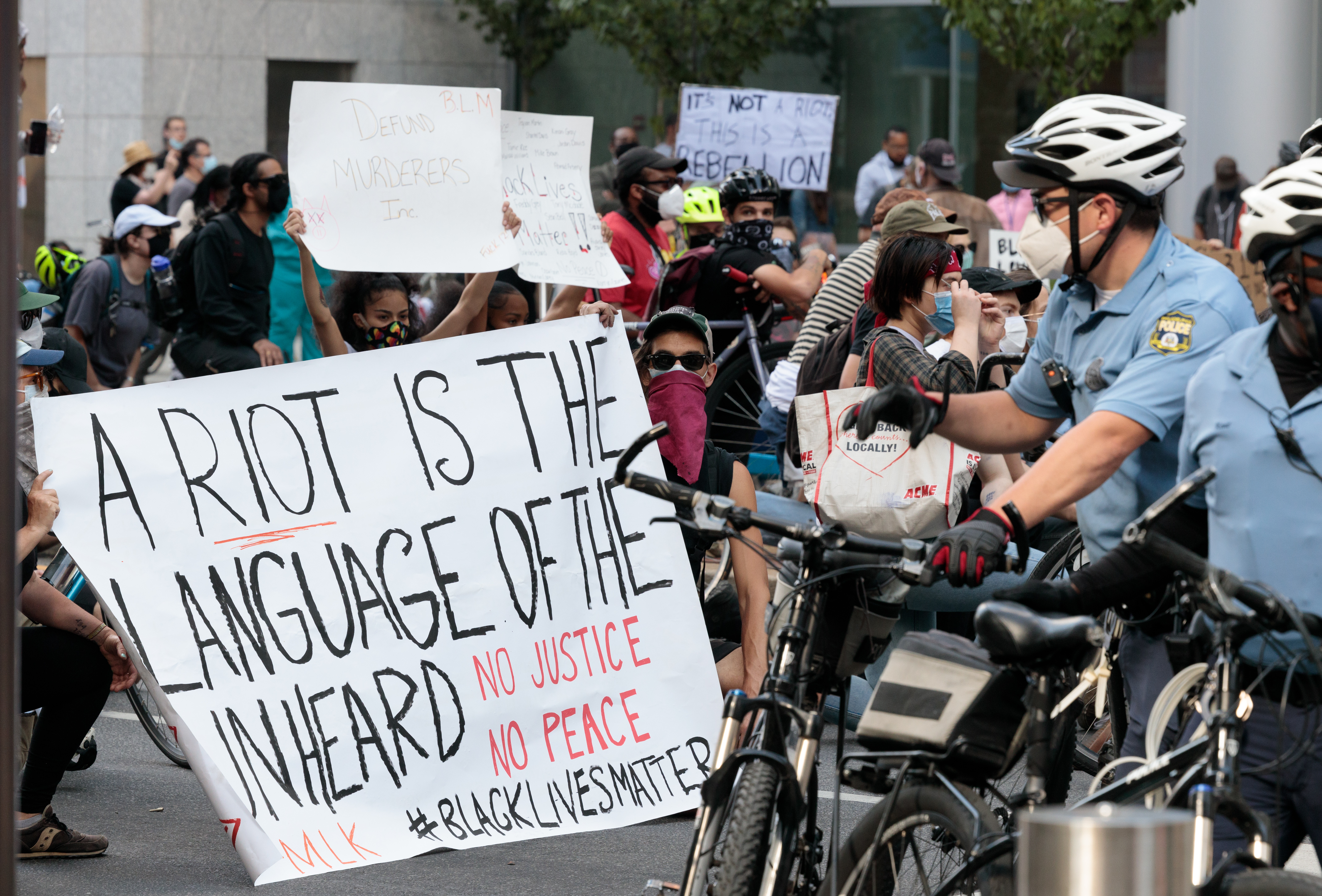 Peaceful protesters with signs.